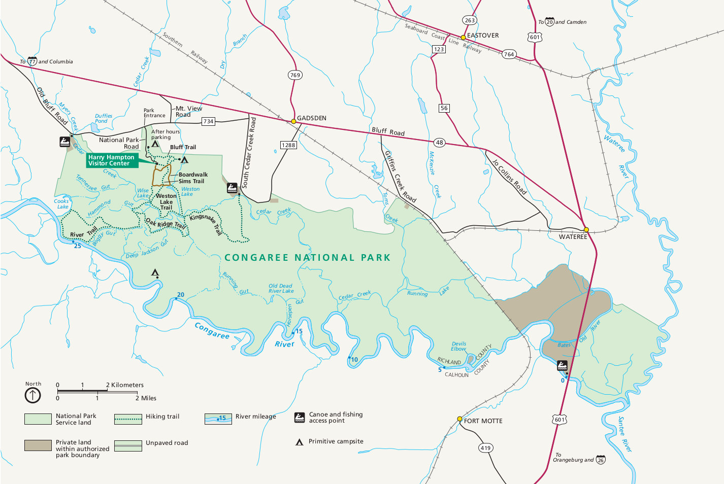 Official Congaree National Park map from the brochure, showing the visitor center, trails, roads, and campsites.